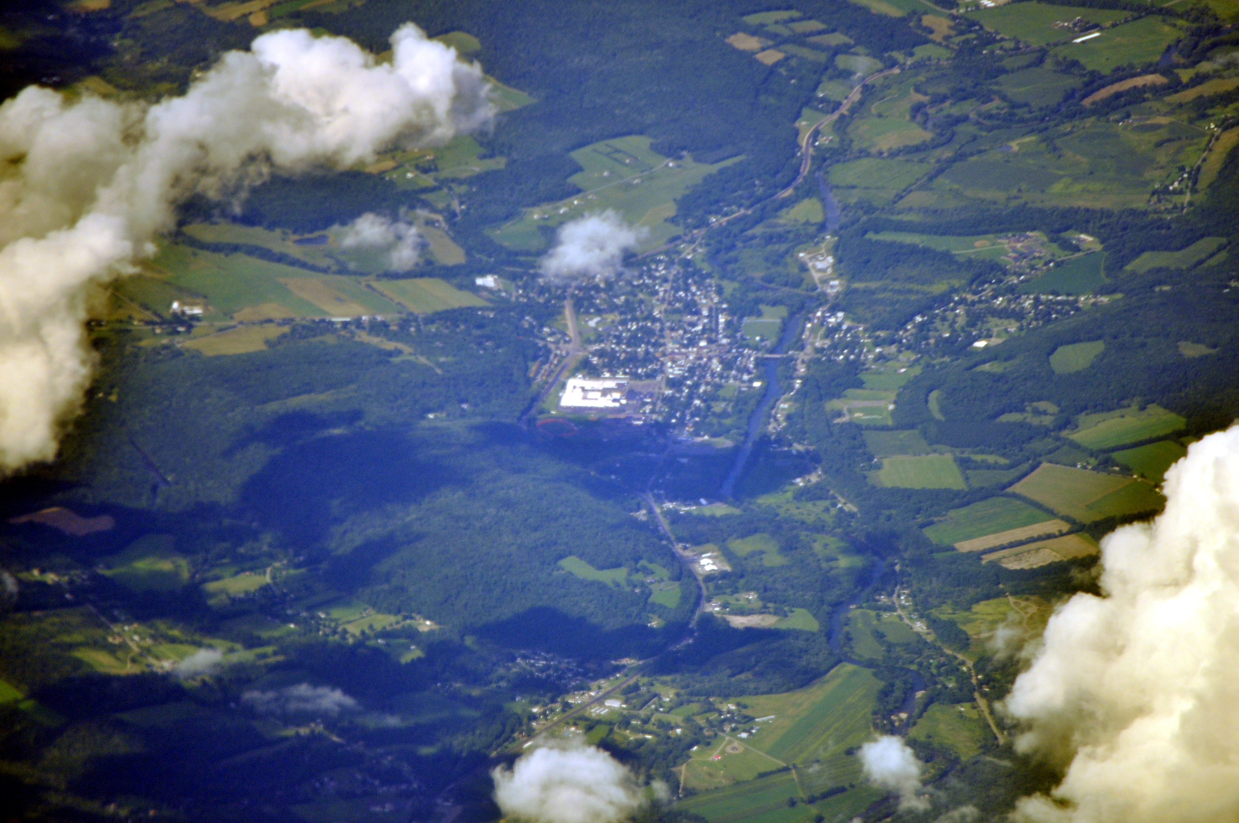 Aerial view of Greene, Chenango County, New York from the south. The Chenango River can be seen running roughly vertically in the picture.